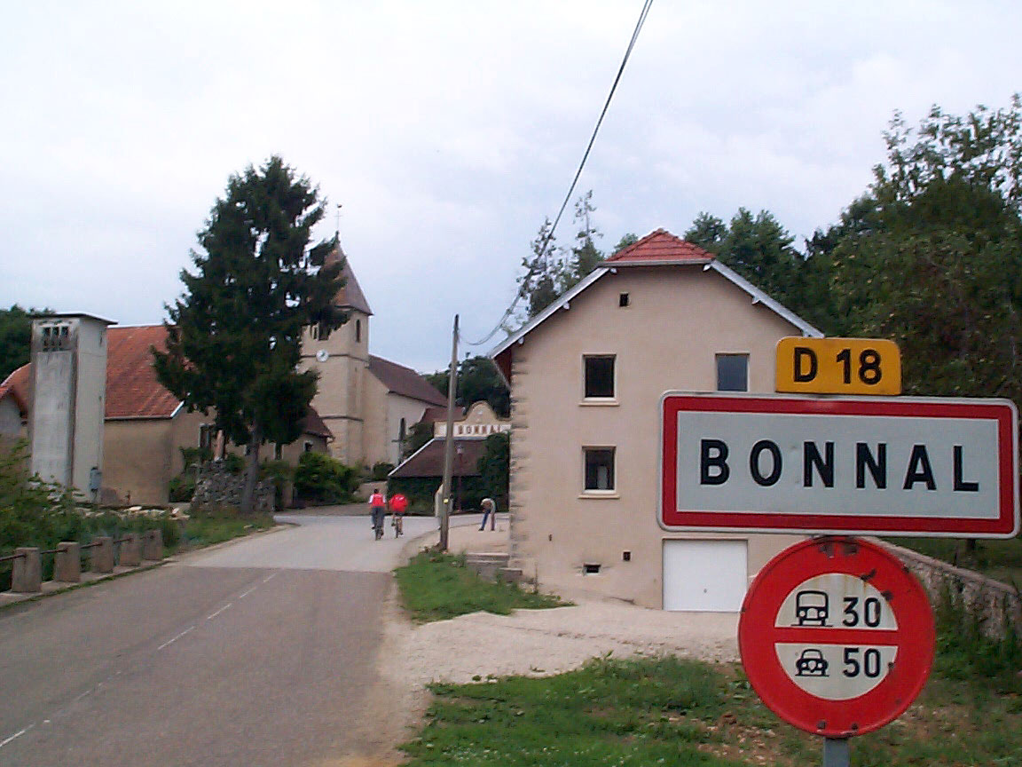 The village of Bonnal/France